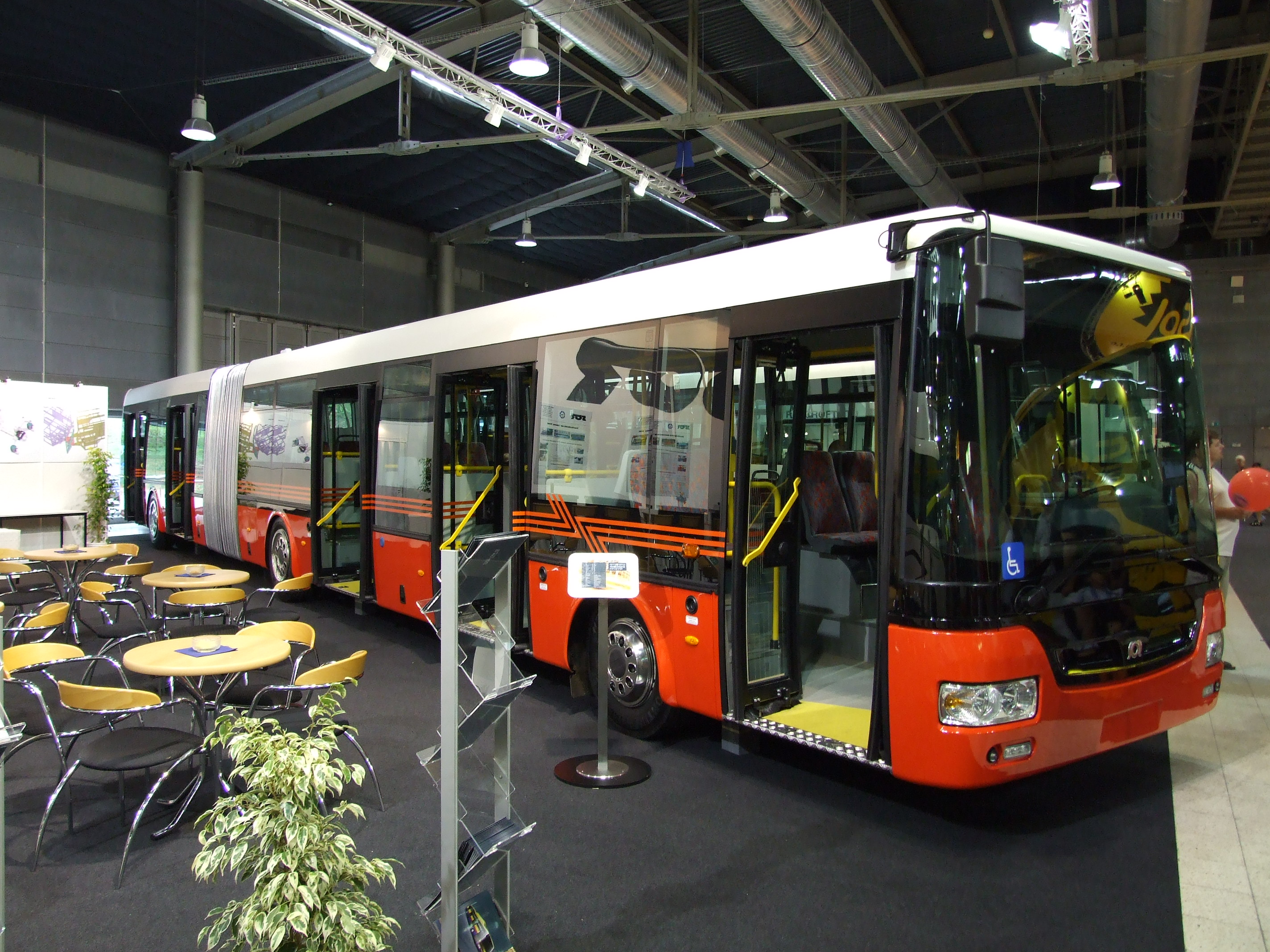 Bus model SOR 18 NB at Brno AUTOTEC 2008 bus/truck/car fair